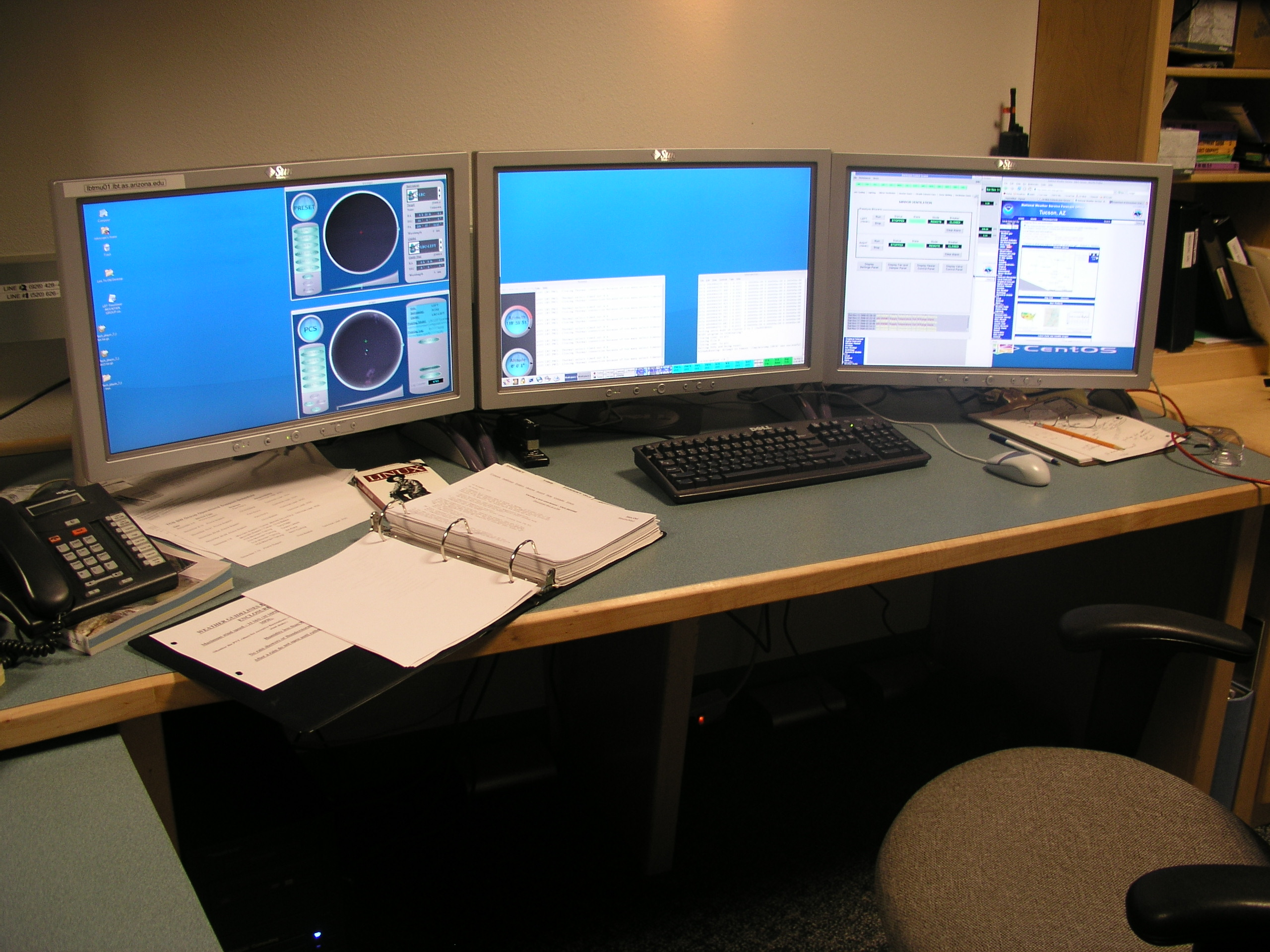 Large Binocular Telescope - Triple-Screen workstation.